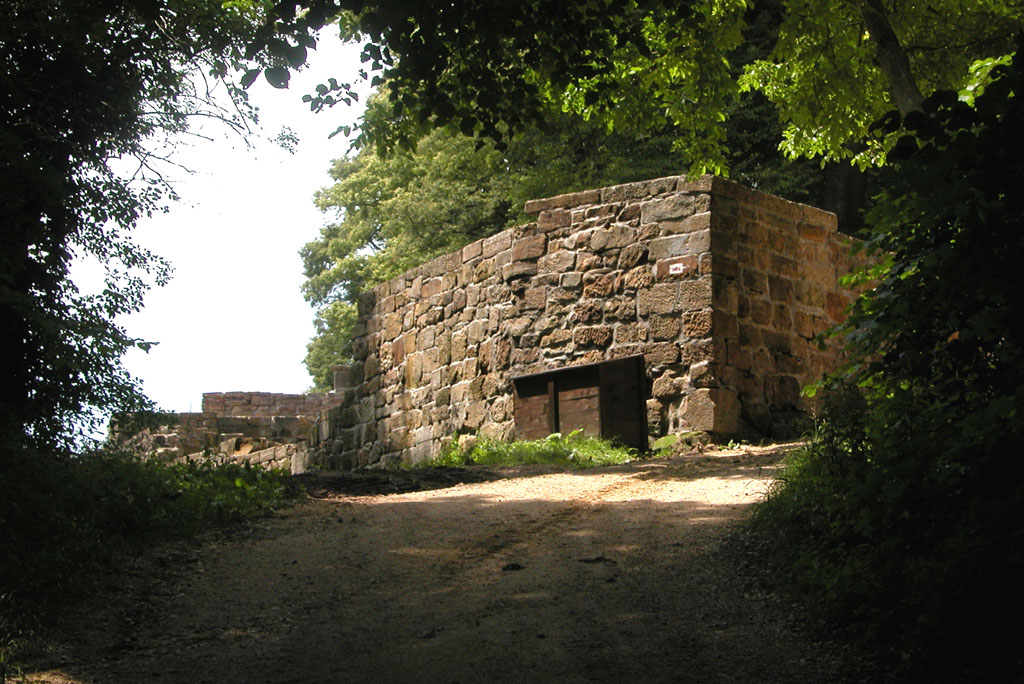 Hohenstaufen Castle ruins in Germany